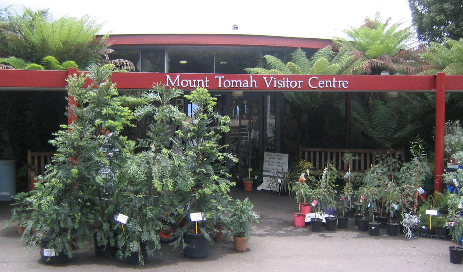 The visitors centre of the Mount Tomah Botanical Gardens, west of Sydney, Australia.